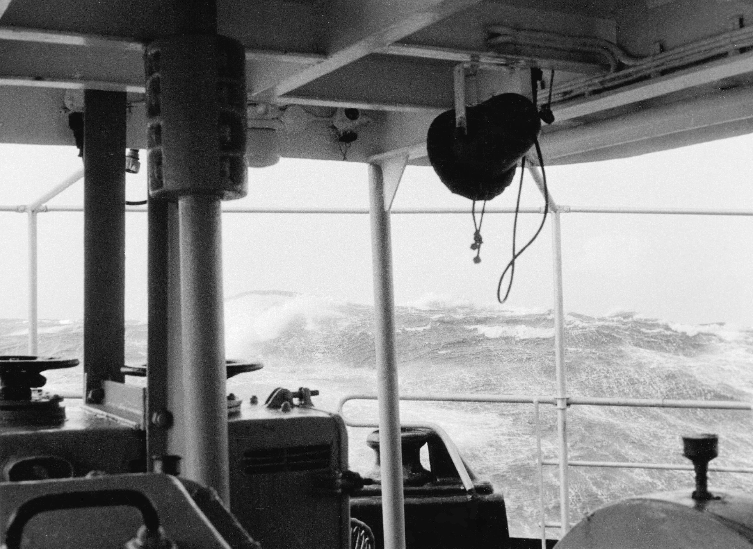 Winter North Atlantic, storm, Beaufort 10, the wind and wave from behind (1957)